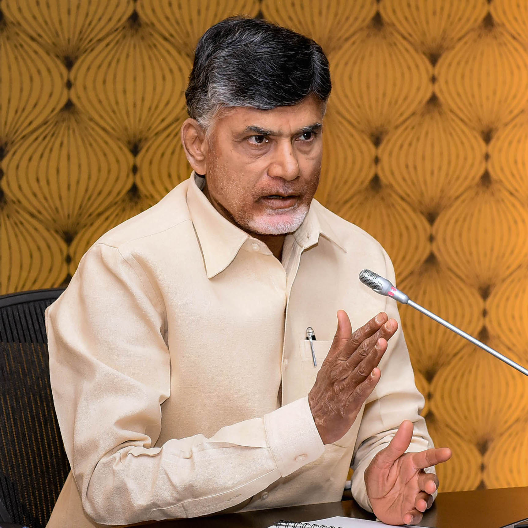 Chandrababu Naidu during cabinet meeting